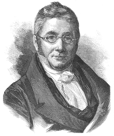 Augustin Pyrame de Candolle (1778-1841), Swiss botanist.